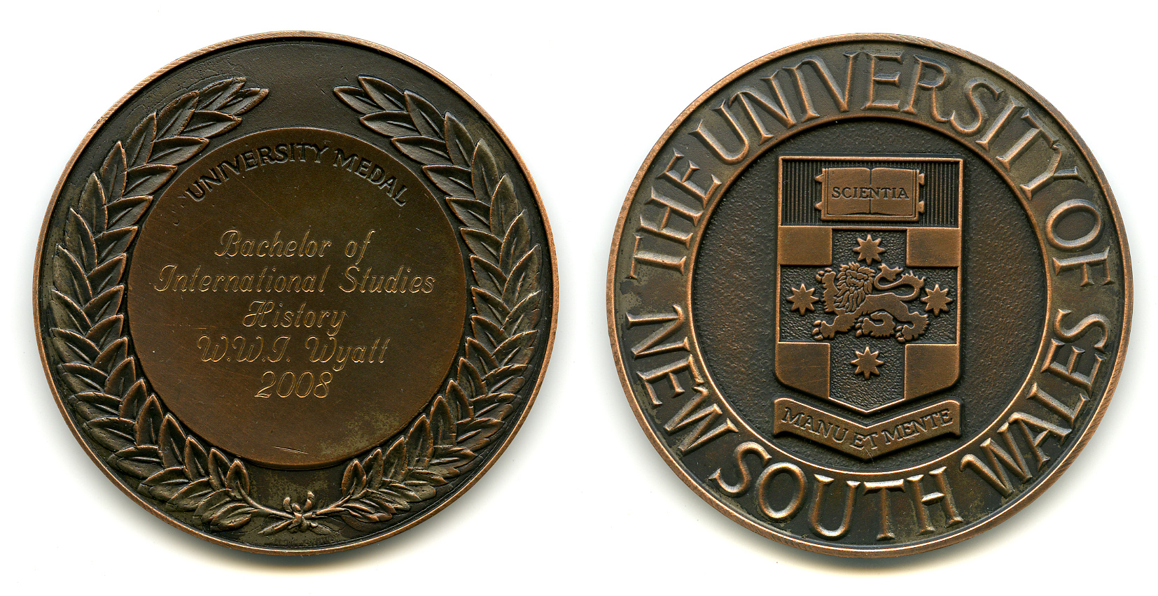 The University Medal in History from the University of New South Wales (UNSW), 2008. Awarded on April 21 2009 to WWI Wyatt (Liam) - user:witty lama